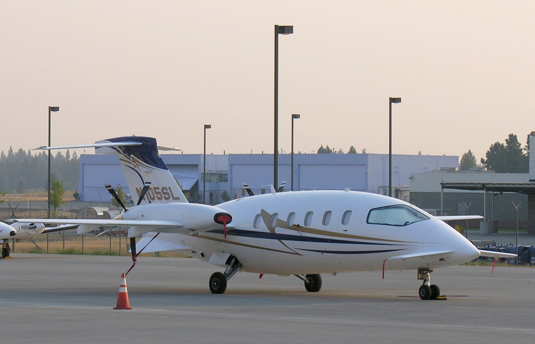 Piaggio P180 Avanti, Spokane International Airport, Washington